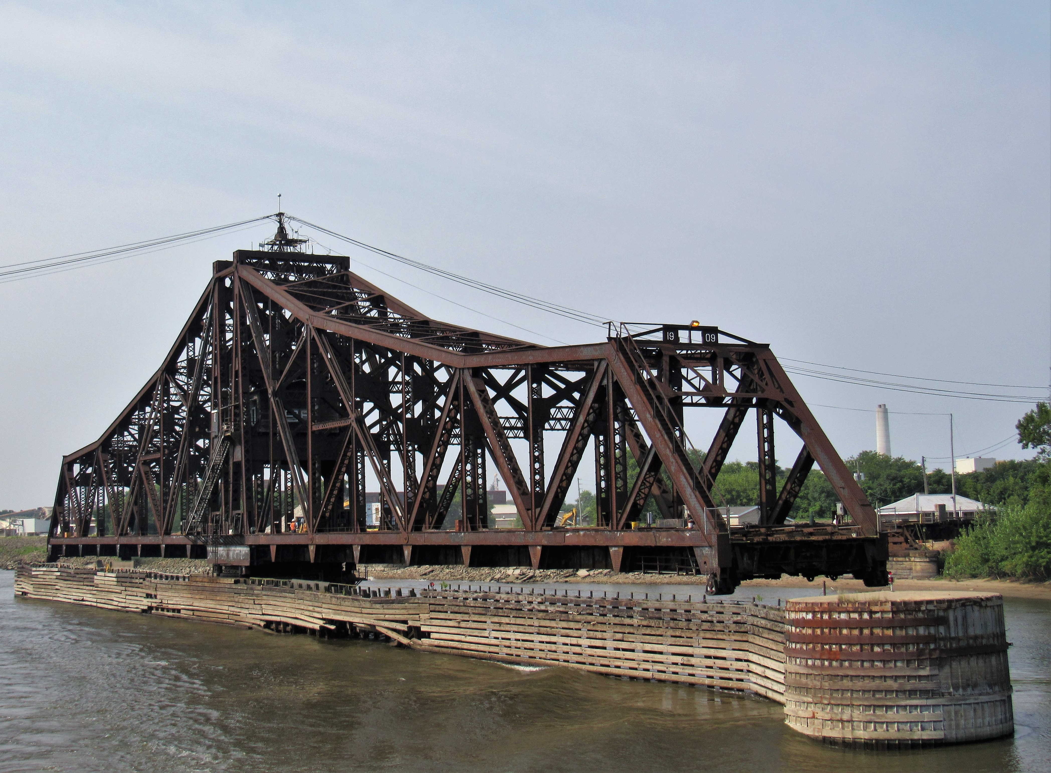 The swing span of the Clinton Railroad Bridge over the Mississippi River at Clinton, Iowa.